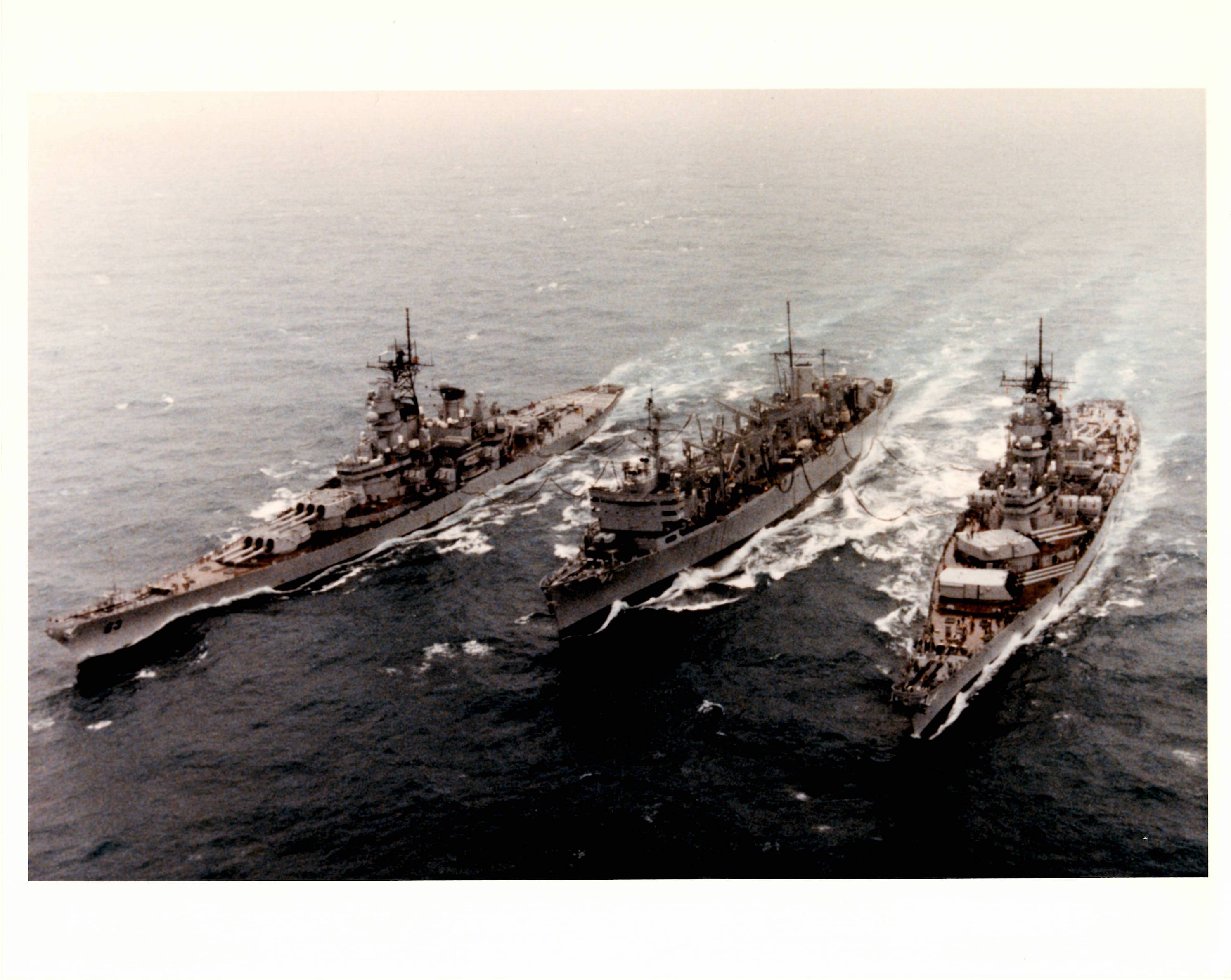 USS Sacramento (AOE-1), center, conducts an underway replenishment (UNREP) with the USS Wisconsin (BB-64), foreground, and the USS Missouri (BB-63) during Operation Desert Shield, 14 Jan 1991.